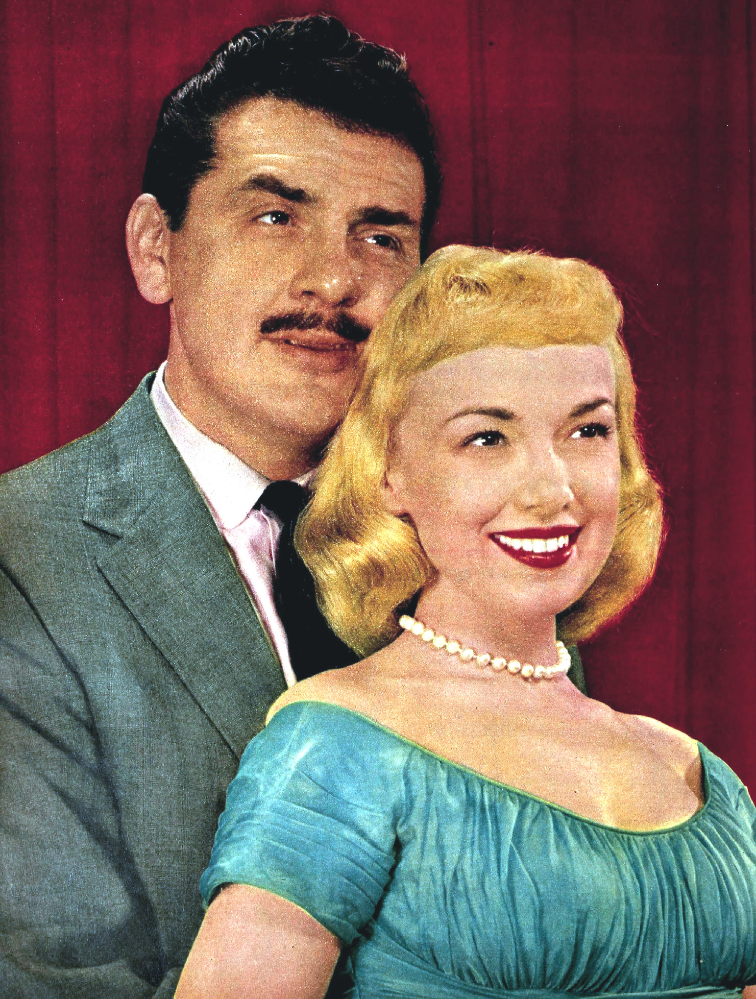 Photo of comedian Ernie Kovacs and his wife, singer, actress and comedienne Edie Adams.